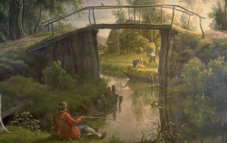 Detail wallpaper in the Museum Geelvinck-Hinlopen Huis